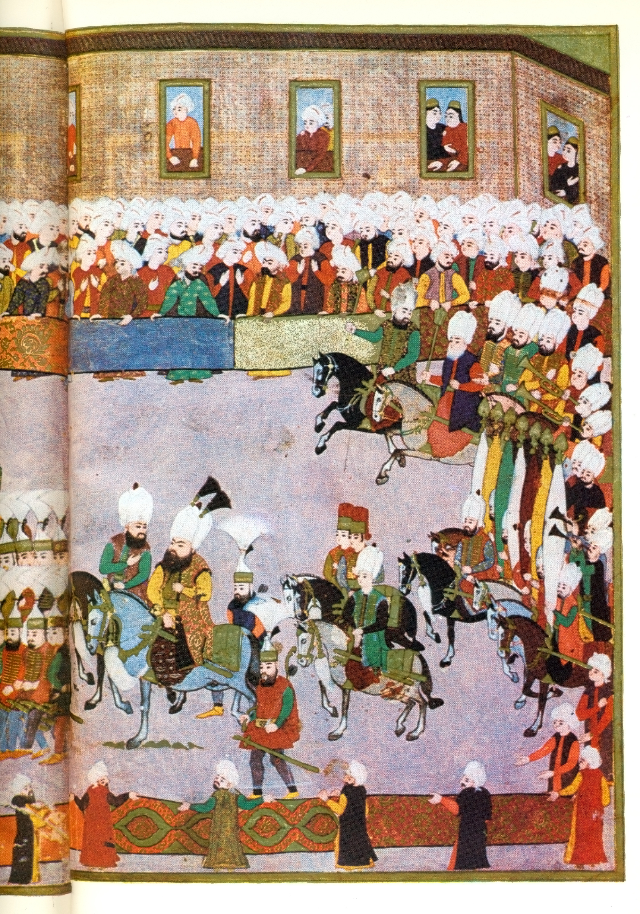 right part of a double size miniature